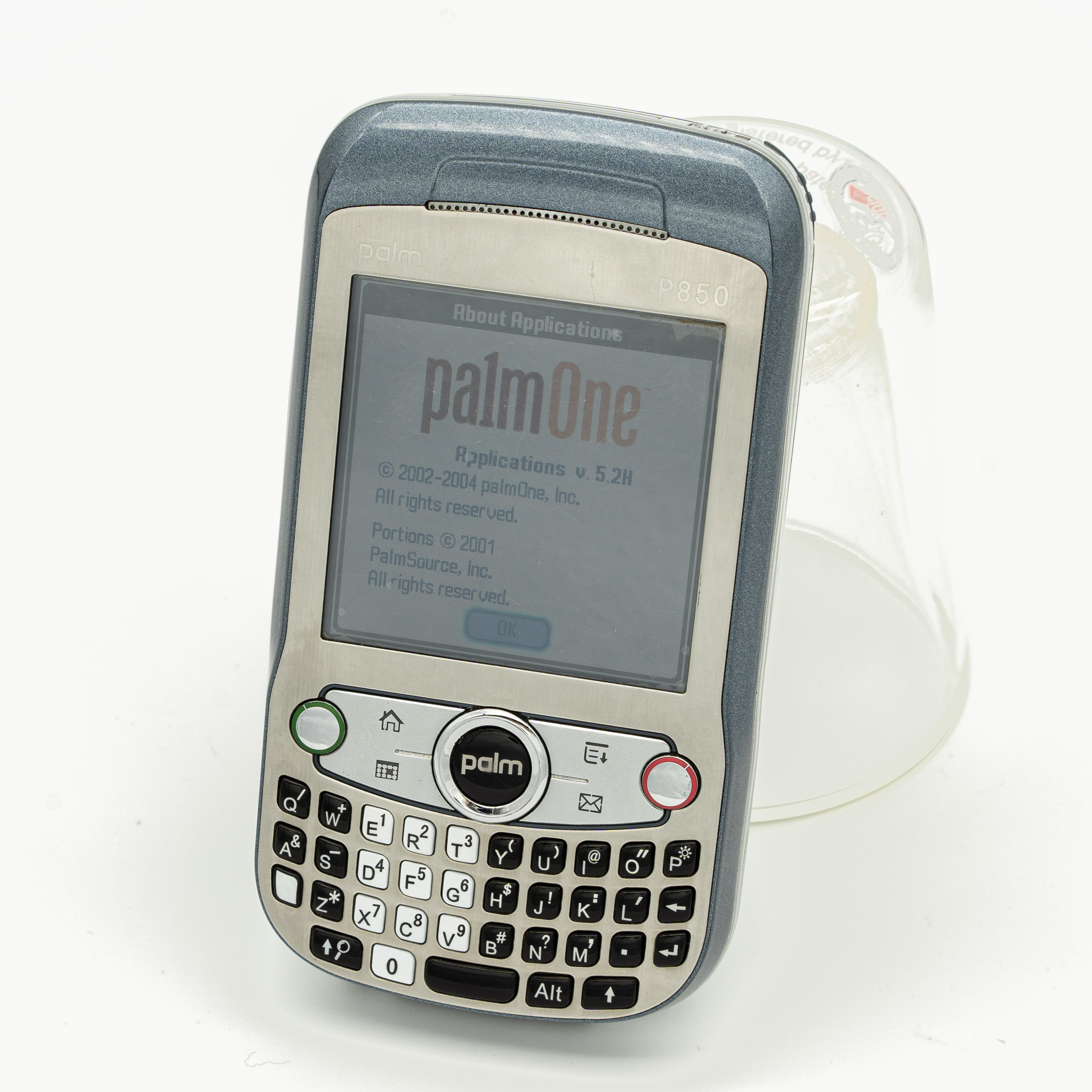 Shows palmOne logo, even though that company merged 4 years prior.